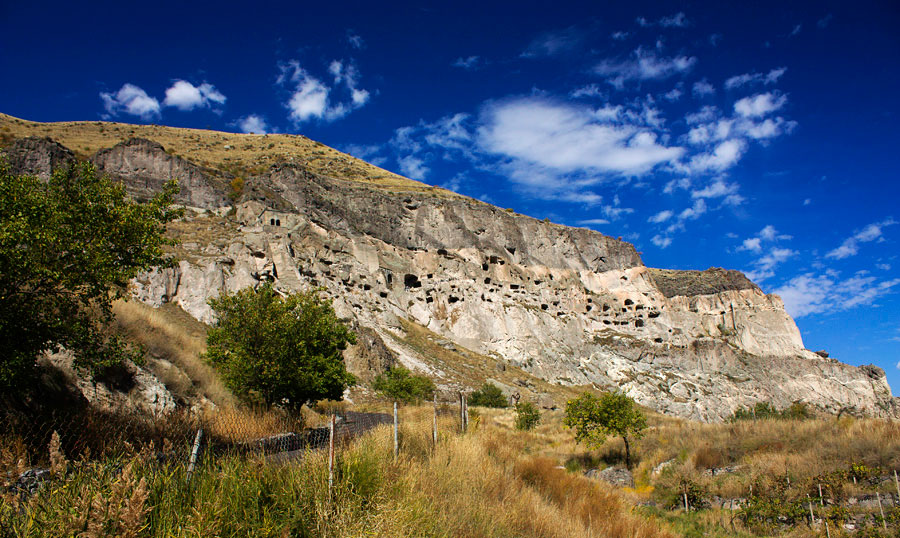 Vardzia, Georgia